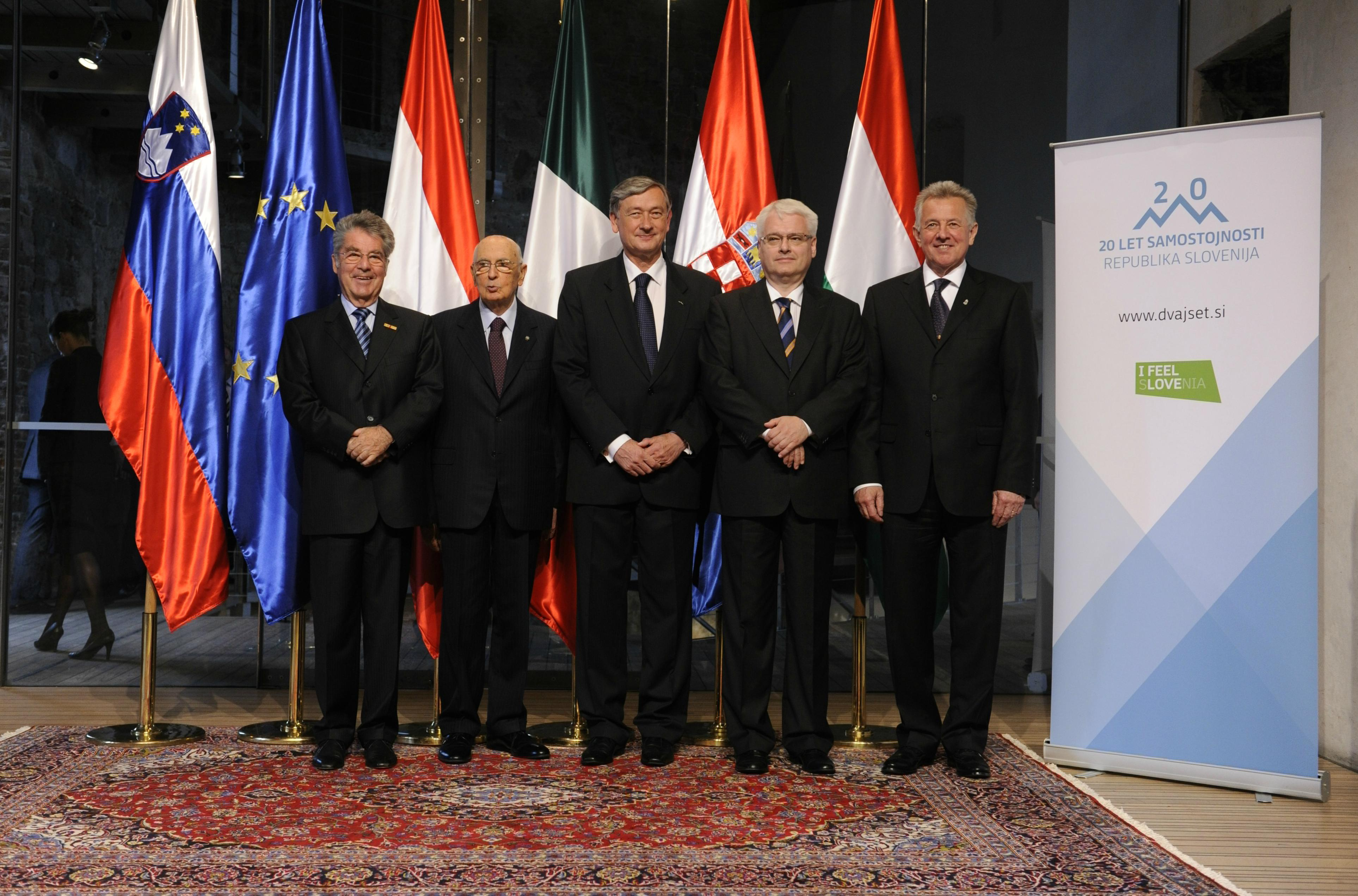 Heinz Fischer, Giorgio Napolitano, Danilo Türk, Ivo Josipović and Pál Schmitt in Slovenia in 2011